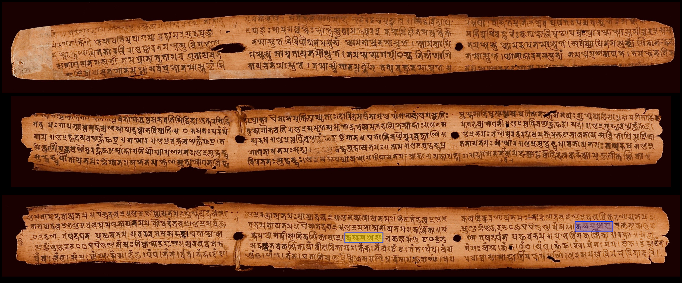 This is one of the oldest surviving and dated Sanskrit palm leaf manuscripts from the Indian subcontinent. It relates to Hinduism, more specifically the Shaivism tradition (Shiva-related, Saiva Siddhanta, esoteric tantric Nepalese/Himalayan subschool). Though incomplete and partially damaged, the manuscript contains a substantial portion of the Pārameśvaratantra (also referred to as the Puskaratantra or Puskara-Paramesvaratantra). The palm leaf manuscript shows all signs of age-related decay. Further, the order of the pages are a bit jumbled as the text does not flow from one page to another, but is more meaningfully connected to a distant page inside the book. The manuscript has not been published yet (as of 2018). The manuscript is significant for its script, which is Late Gupta but in a form close to the Devanagari. Daniel Wright purchased this manuscript in February 1875 in Nepal. The manuscript is now preserved as MS Add.1049.1 at the Cambridge University LIbrary. The lowest leaf in the photo above is notable for narrating the Sanskrit alphabet list twice (starting in second line, right side after the hole; then repeating in mid-third line, note the shapes and compare with early Gupta, Devanagari). The bottom leaf shows the complete list, both when the original document was authored, and in 828 CE when this manuscript was written down (see the blue and yellow highlighted parts for the first 5 consonants): a, ā, i, ī, u, ū, ṛ, ṝ, ḷ, ḹ, e, ai, o, au, aṃ, aḥ, ka, kha, ga, gha, ṅa, ca, cha, ja, jha, ña, ṭa, ṭha, ḍa, ḍha, ṇa, ta, tha, da, dha, na, pa, pha, ba, bha, ma, ya, va, ra, la, śa, ṣa, sa, ha, kṣa. Language: Sanskrit Script: Late Gupta The photo above is of a 2D artwork created about 828 CE, itself a copy from a text that was authored centuries earlier. The artwork and this 2D photograph, therefore, fall under Wikimedia Commons PD-Art licensing guidelines. Any rights I have as a photographer is herewith donated to wikimedia commons under CC 4.0 license.